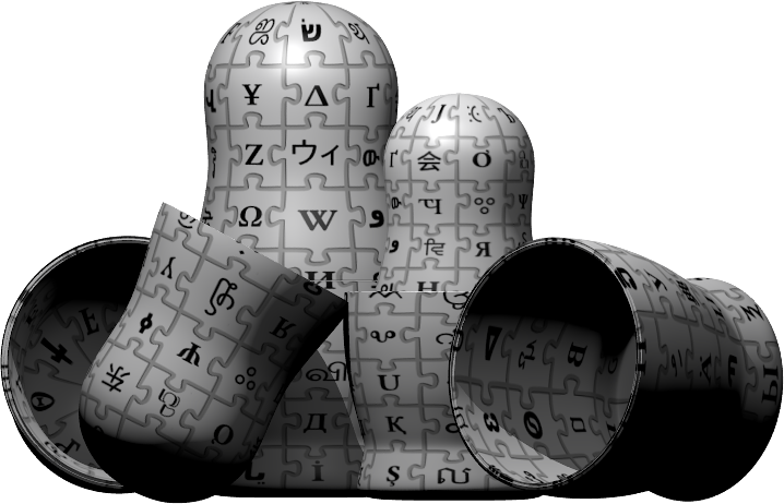 Wikipedia logo as matryoshka doll. This version has Linux Libertine font. See also